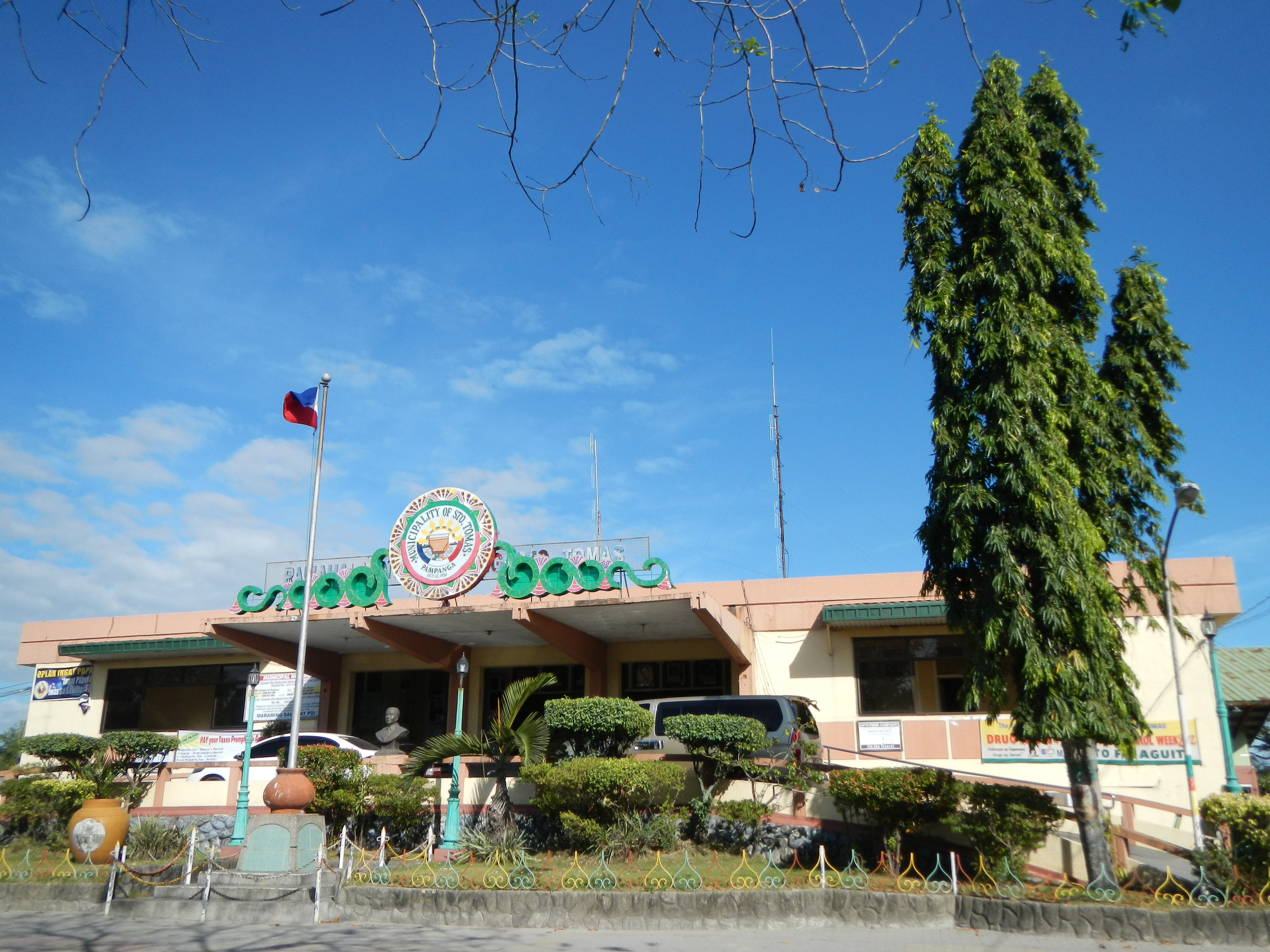 Santo Tomas, Pampanga[1][2] ( Sabuaga Festival and Casket capital of the Philippines)[3]